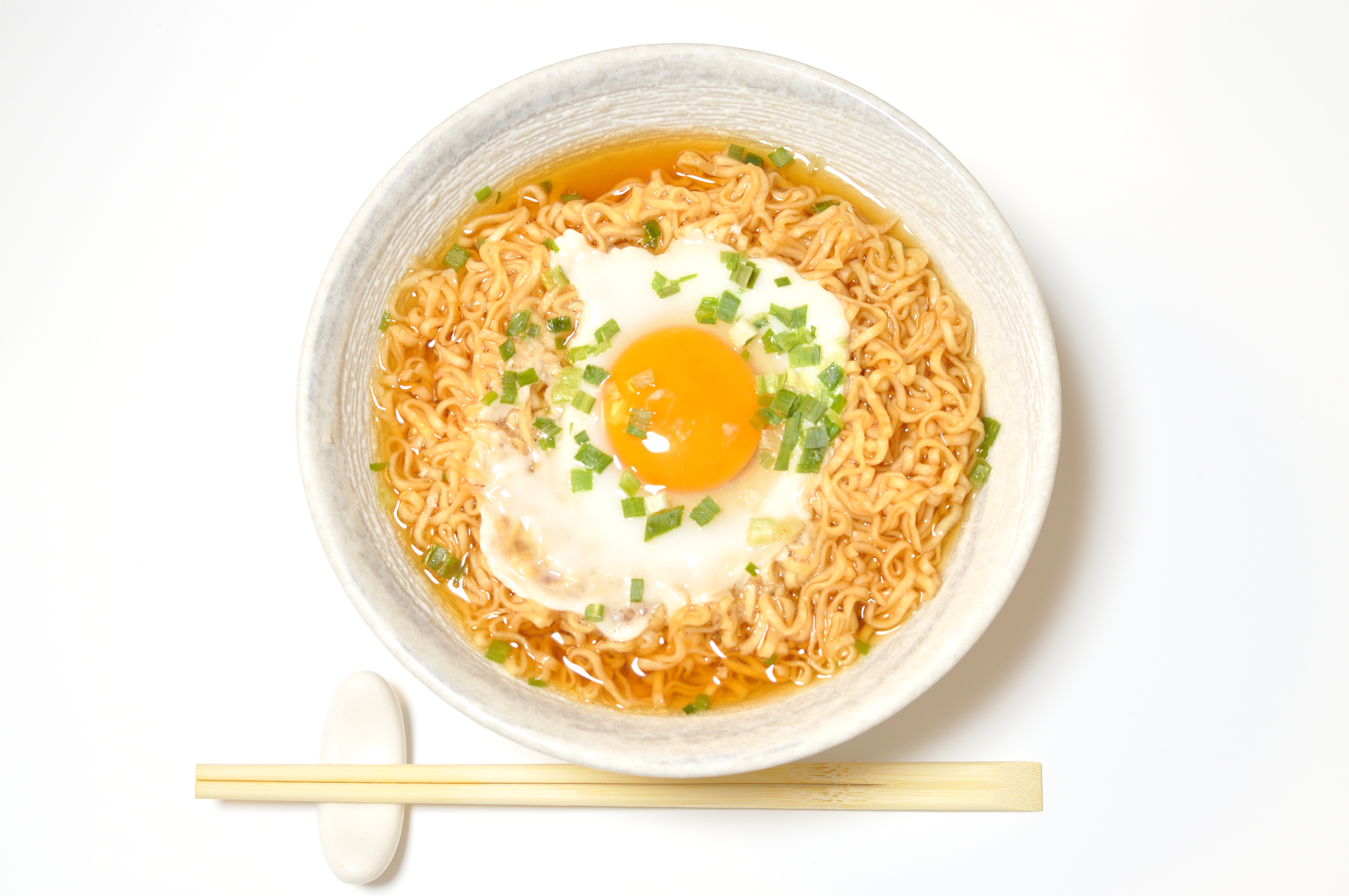 Nissin Chicken Ramen